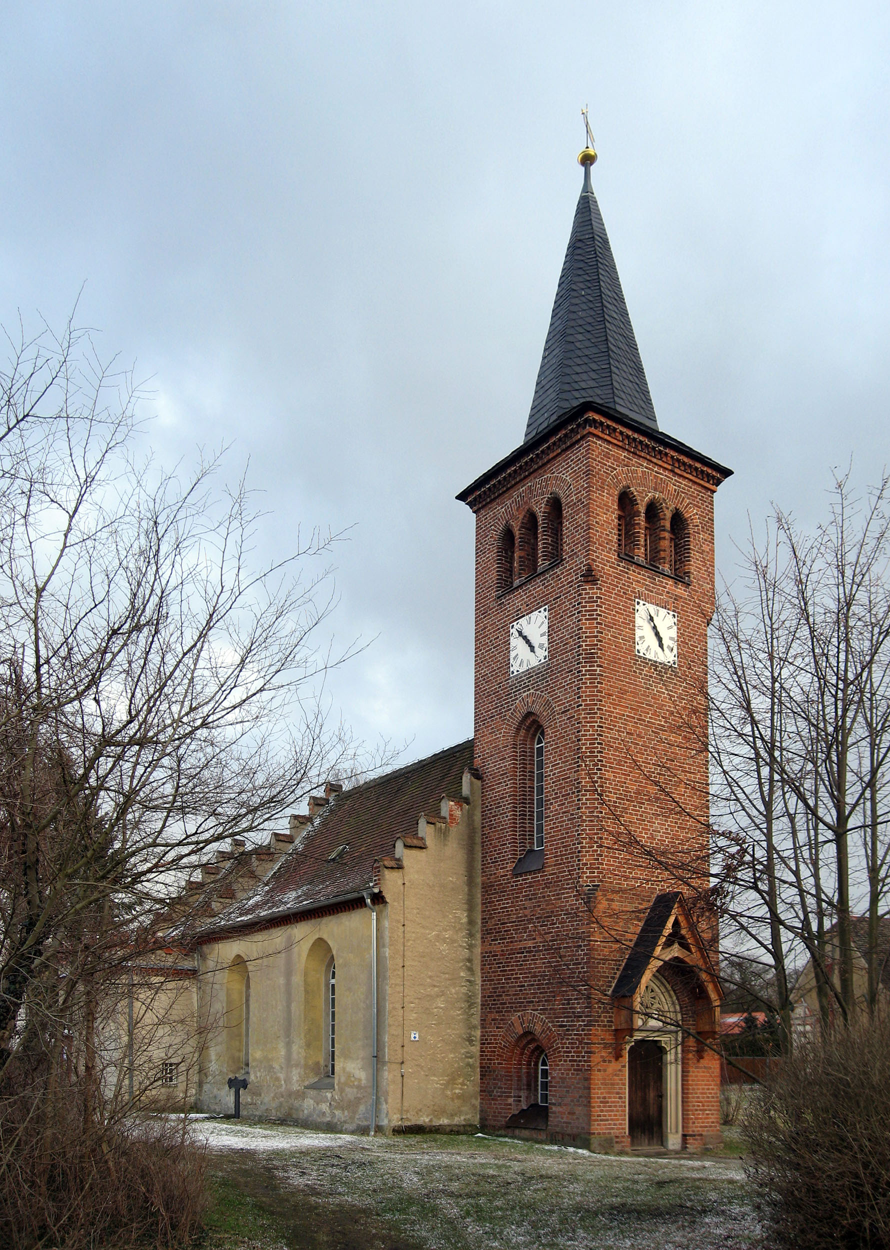 Schlosskirche (Castle Church) in Leipzig-Luetzschena, Schlossweg